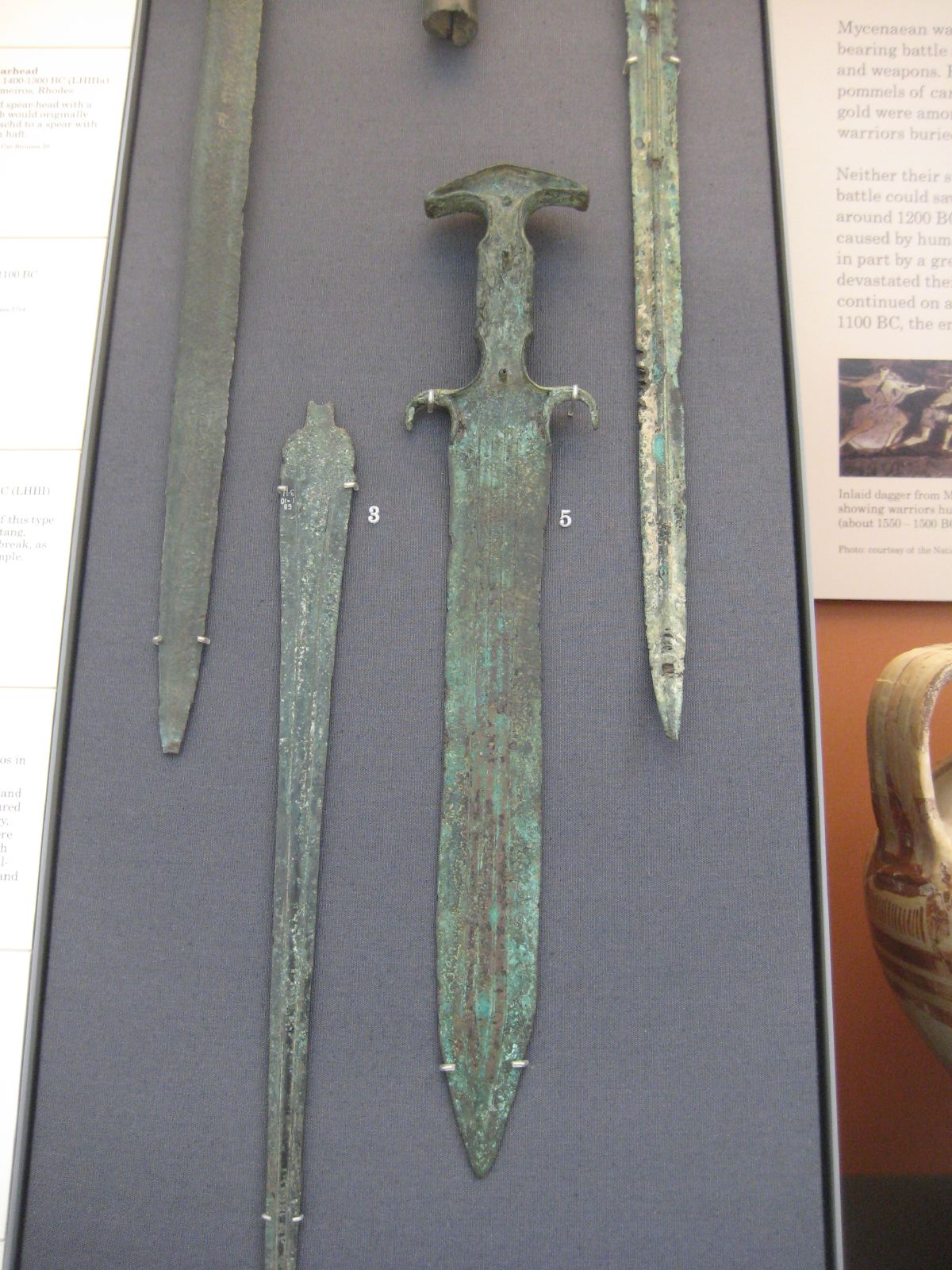 Mycenaean Bronze Dagger, 1300-1100 BC. Probably from Ithaka.